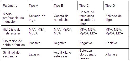 FAEs classification